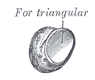 The left pisiform bone.